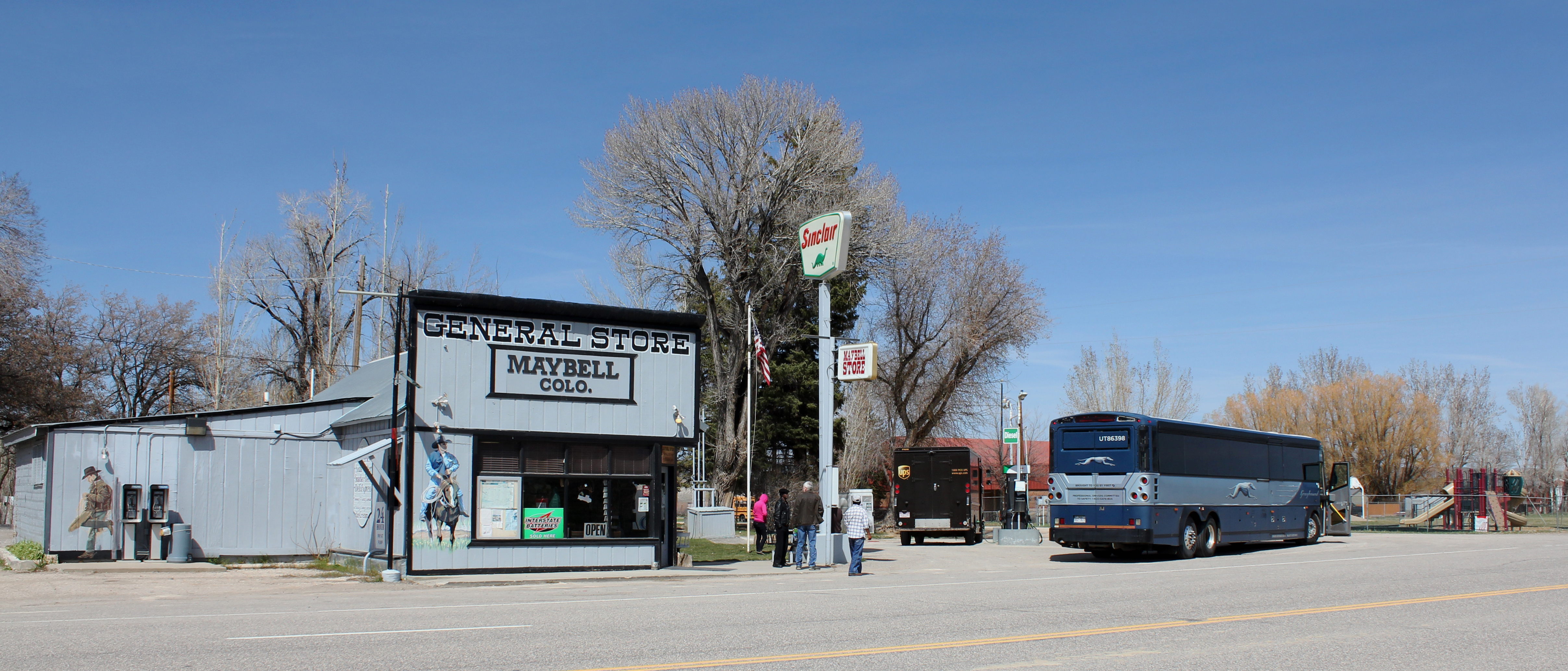 The town of Maybell, Colorado. The picture shows the general store, with a Greyhound Bus on a rest stop. Also, the UPS truck has pulled up for some gas at the store's gas pumps, and then the photographer from Wikipedia happens by to record all the excitement.